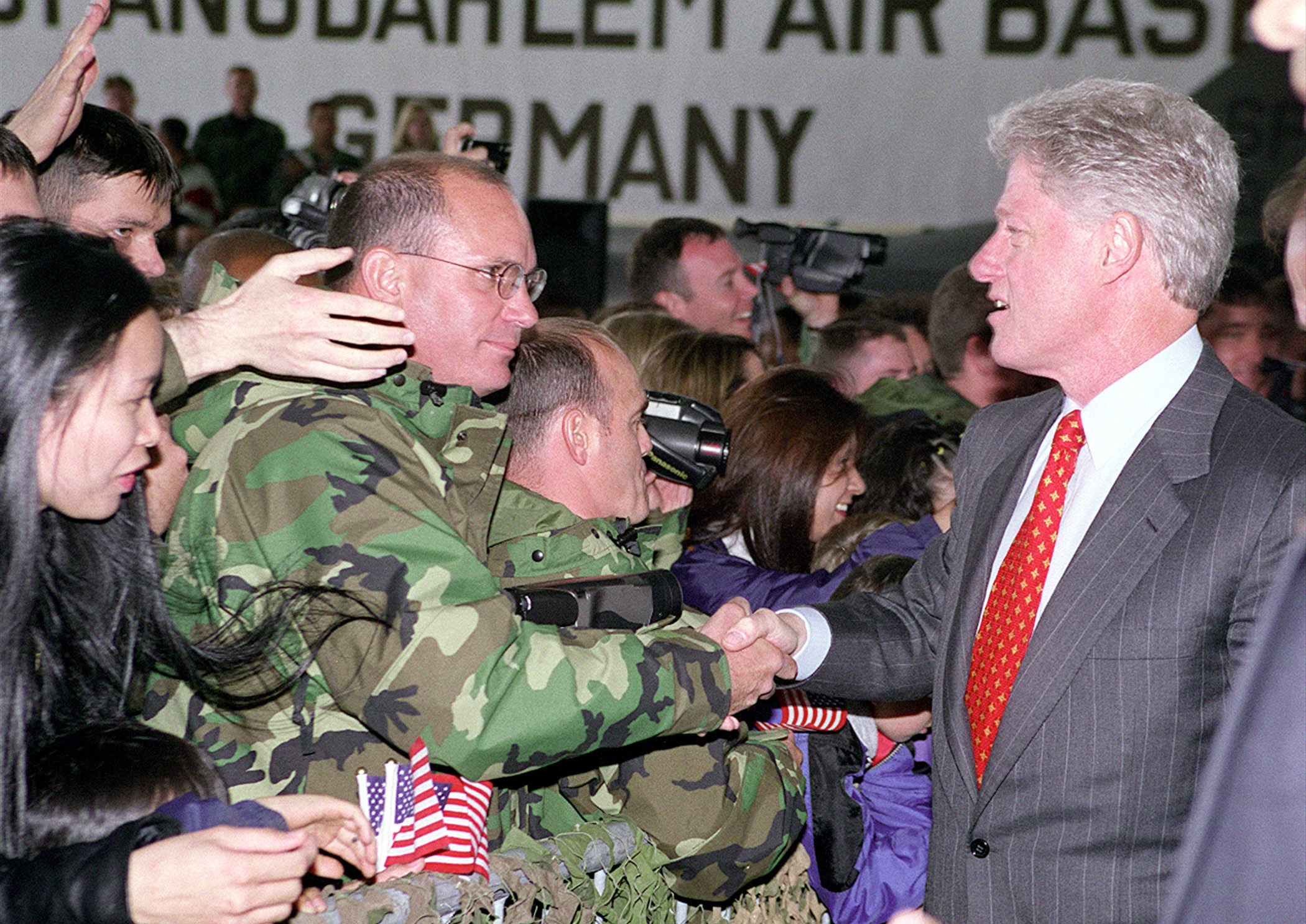 President William Jefferson Clinton greets the crowd at Spangdahlem Air Base, Germany, May 5. The president toured several bases in Europe to thank the troops (not shown) for their support of Operations Allied Force and Shining Hope.